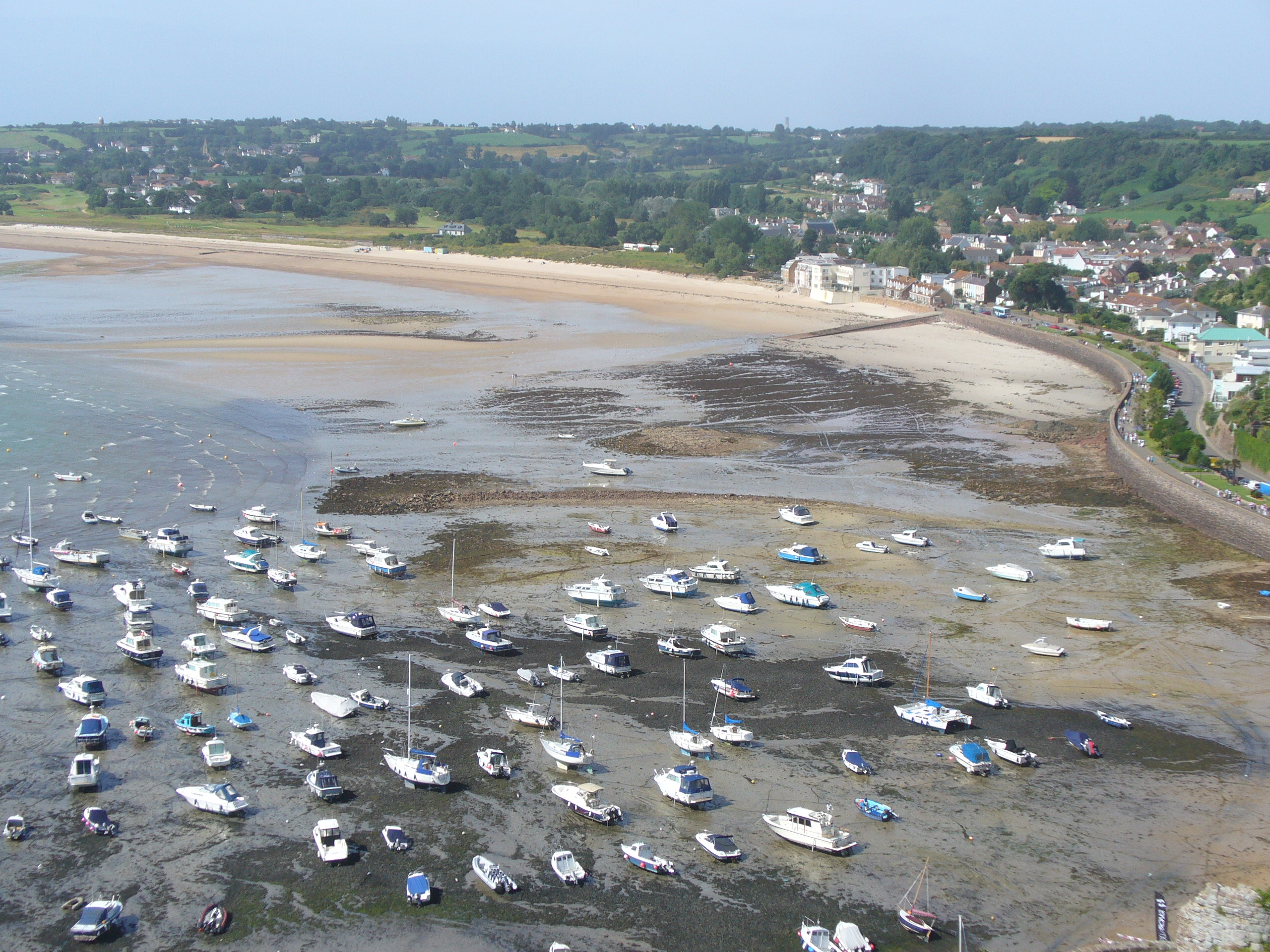 Gorey Harbour, Jersey at low tide. The photo was taken from Mont Orgueil.